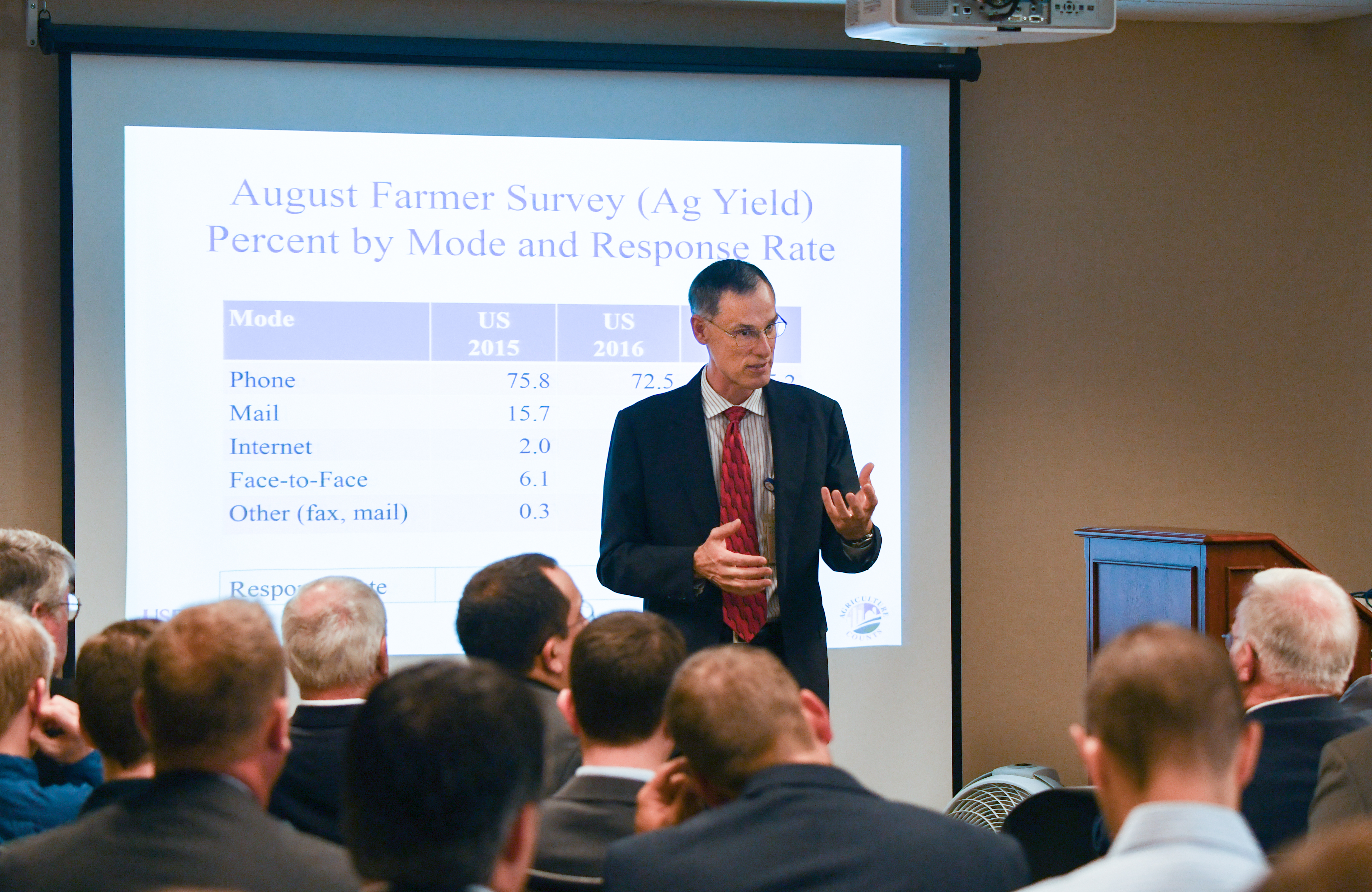 National Agricultural Statistics Service (NASS) Methodology Division Branch Chief Jeff Bailey give visitors a briefing on the NASS processes before entering the lockup facility for a briefing about cotton ginnings, cranberries, and crop production, in Washington, D.C., on Thursday, August 10, 2017. Inside the facility, visitors and staff are required to remove and secure electronic communication devices before entering. Statisticians who are secured in the facility over night generate the reports. The finished reports are released to press journalists two hours early, so they can write their stories within a data secure room. Their stories are sent and the reports are made publicly available, at 12 noon. While there, Secretary Perdue tours through the NASS offices to meet the staff. USDA Photo by Lance Cheung.